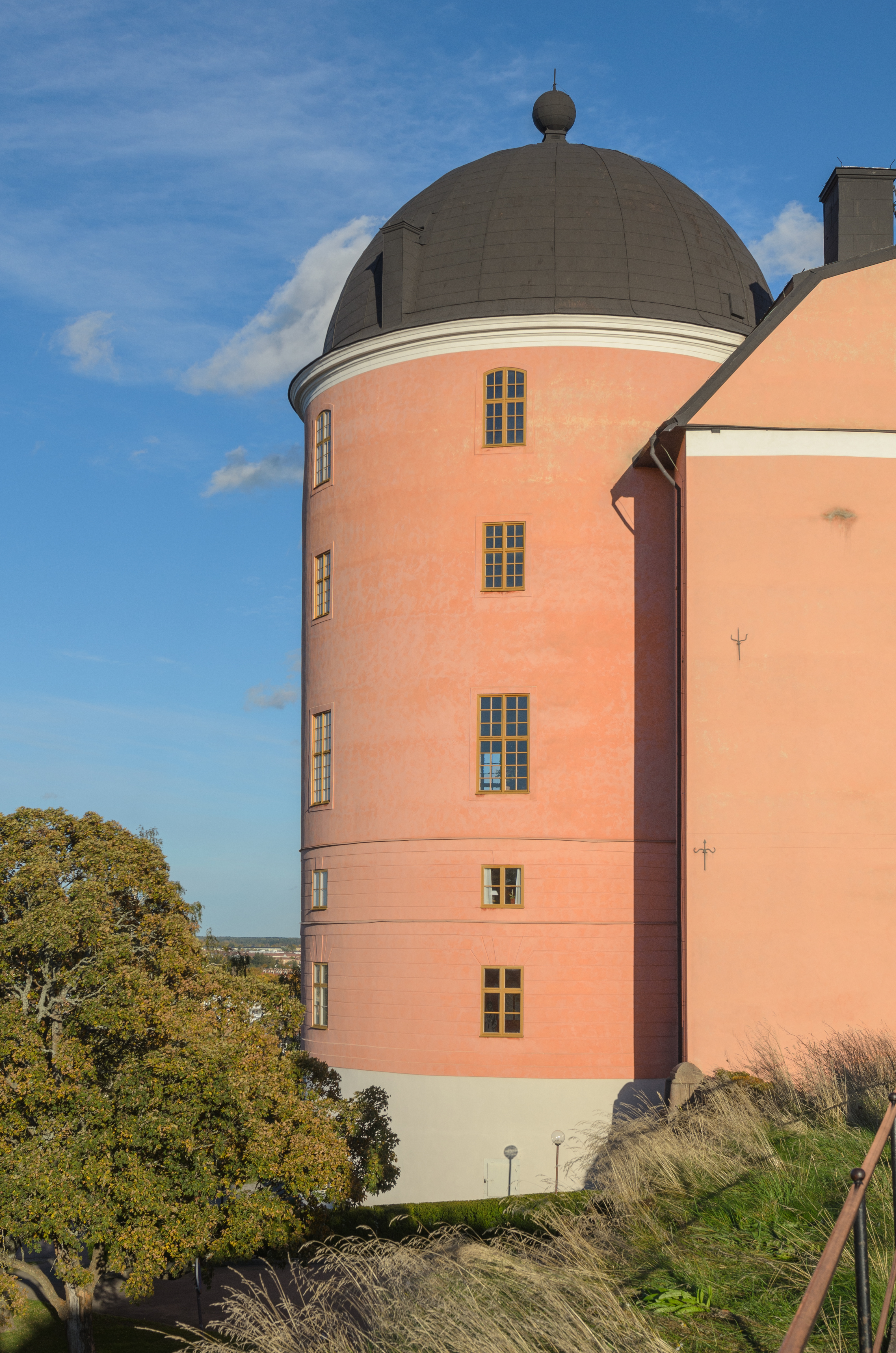 North tower, Uppsala Castle.